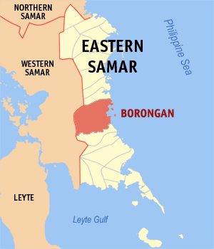 Map of Eastern Samar showing the location of Borongan